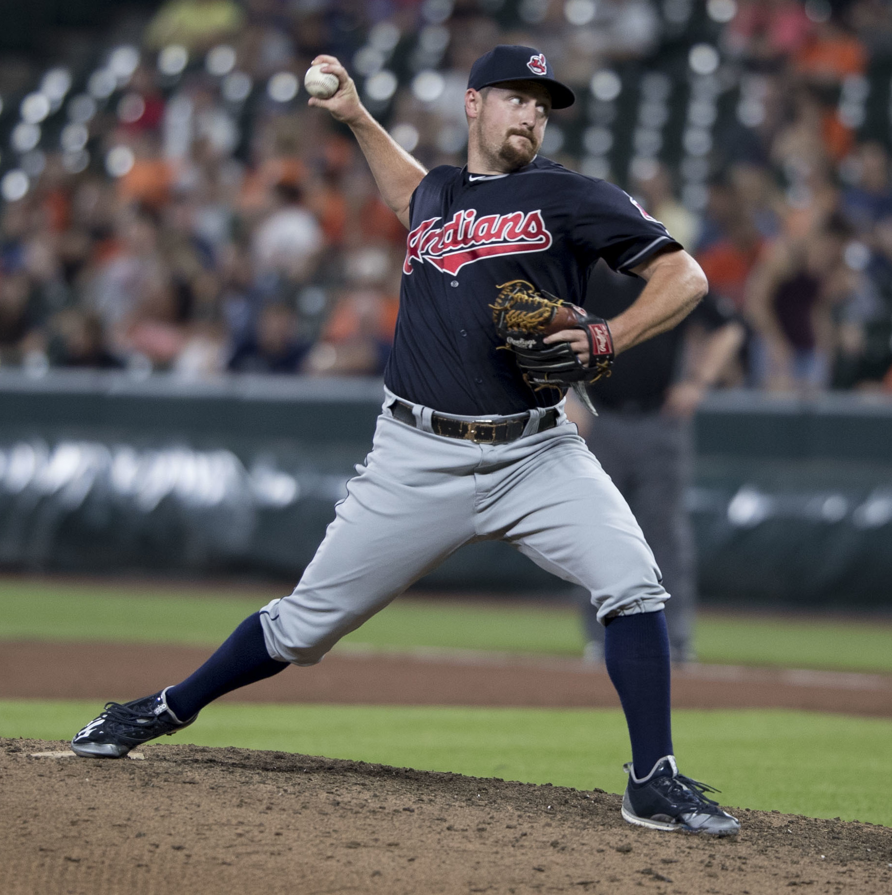 Indians at Orioles 6/22/17